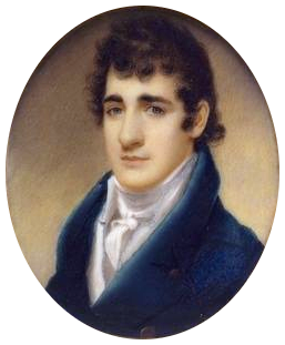 Watercolor on Ivory of John Payne Todd. Currently held in The Metropolitan Museum of Art. Gift of Miss Mary Madison McGuire in 1936. Accession number: 36.73